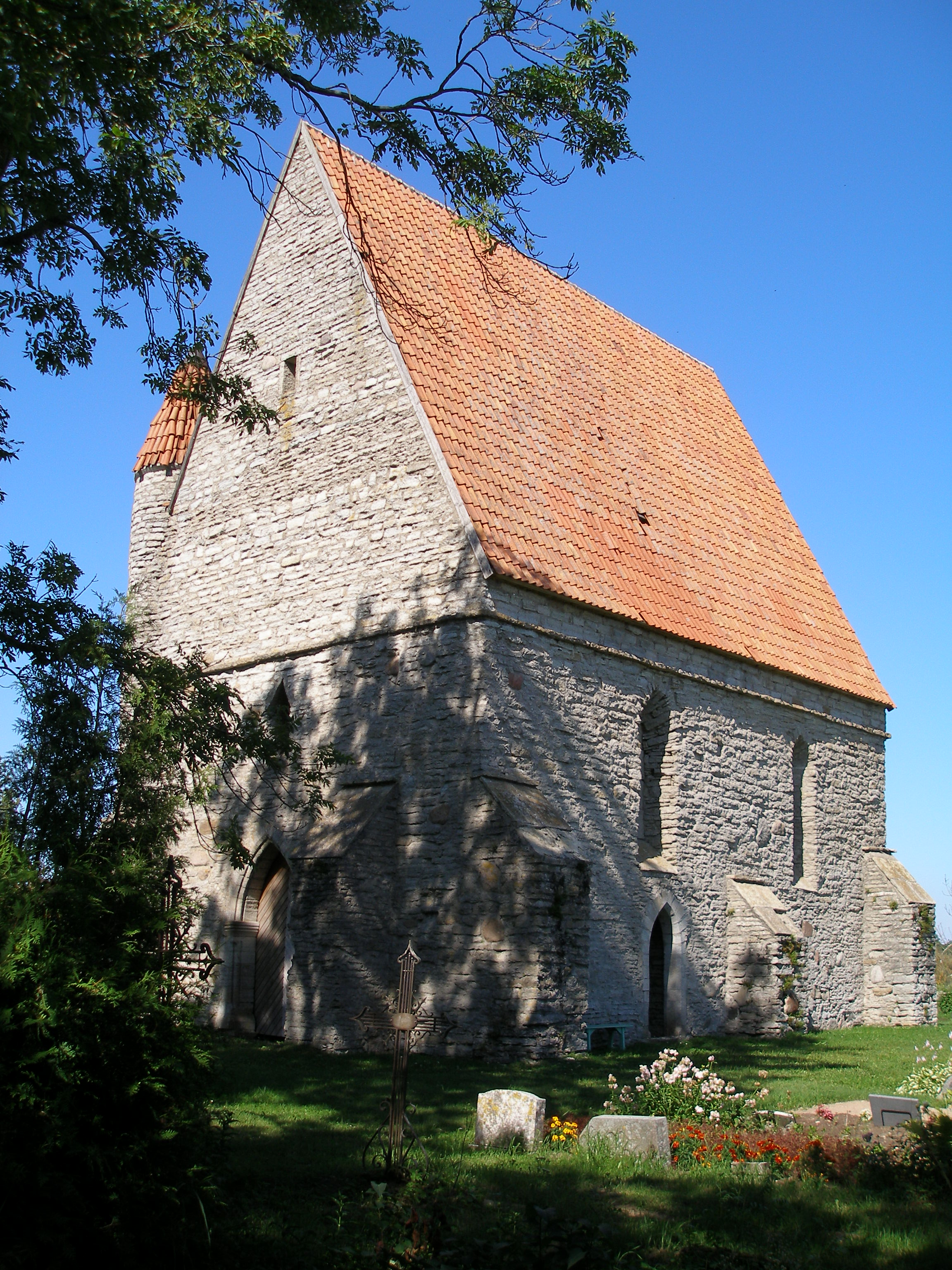 Saha chapel in Jõelähtme parish, Harju county, a few kilometers east of Tallinn.